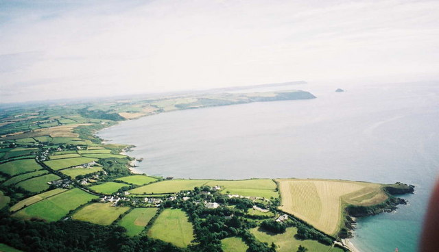 Aerial view from Paramotor of Gerrans Bay Pednvadan in foreground, Nares Head and Gull Rock in distance, Dodman Point beyond.